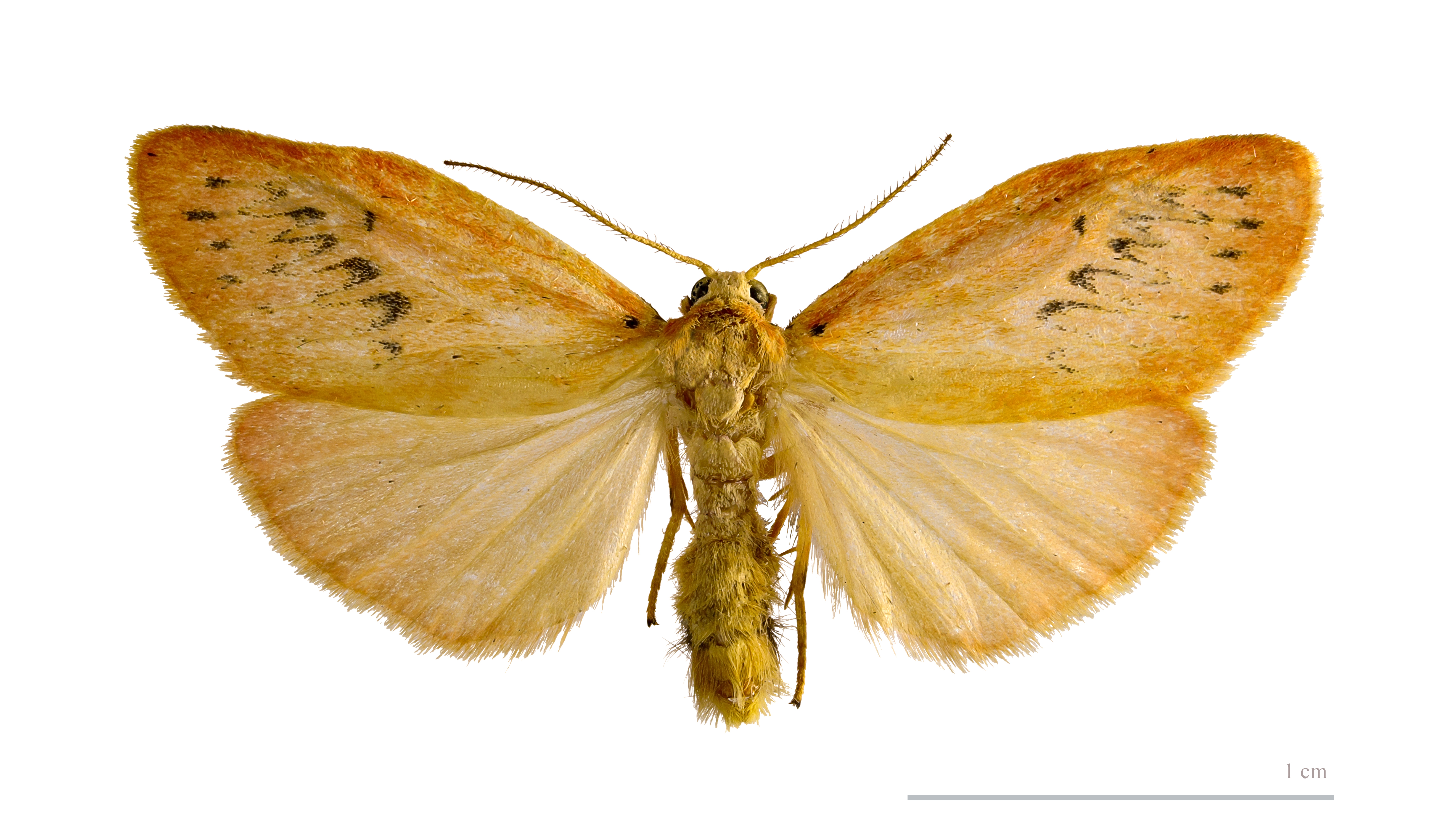 Rosy Footman - Dorsal side Locality: Sainte-Croix-Volvestre, Ariège, Midi-Pyrénées, France